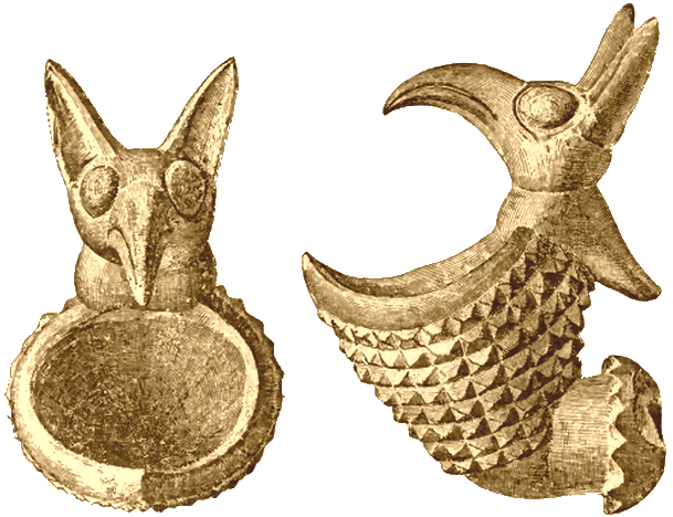 Effigy pipe, from Nacoochee Mound, in Georgia. Precolumbian artifact.